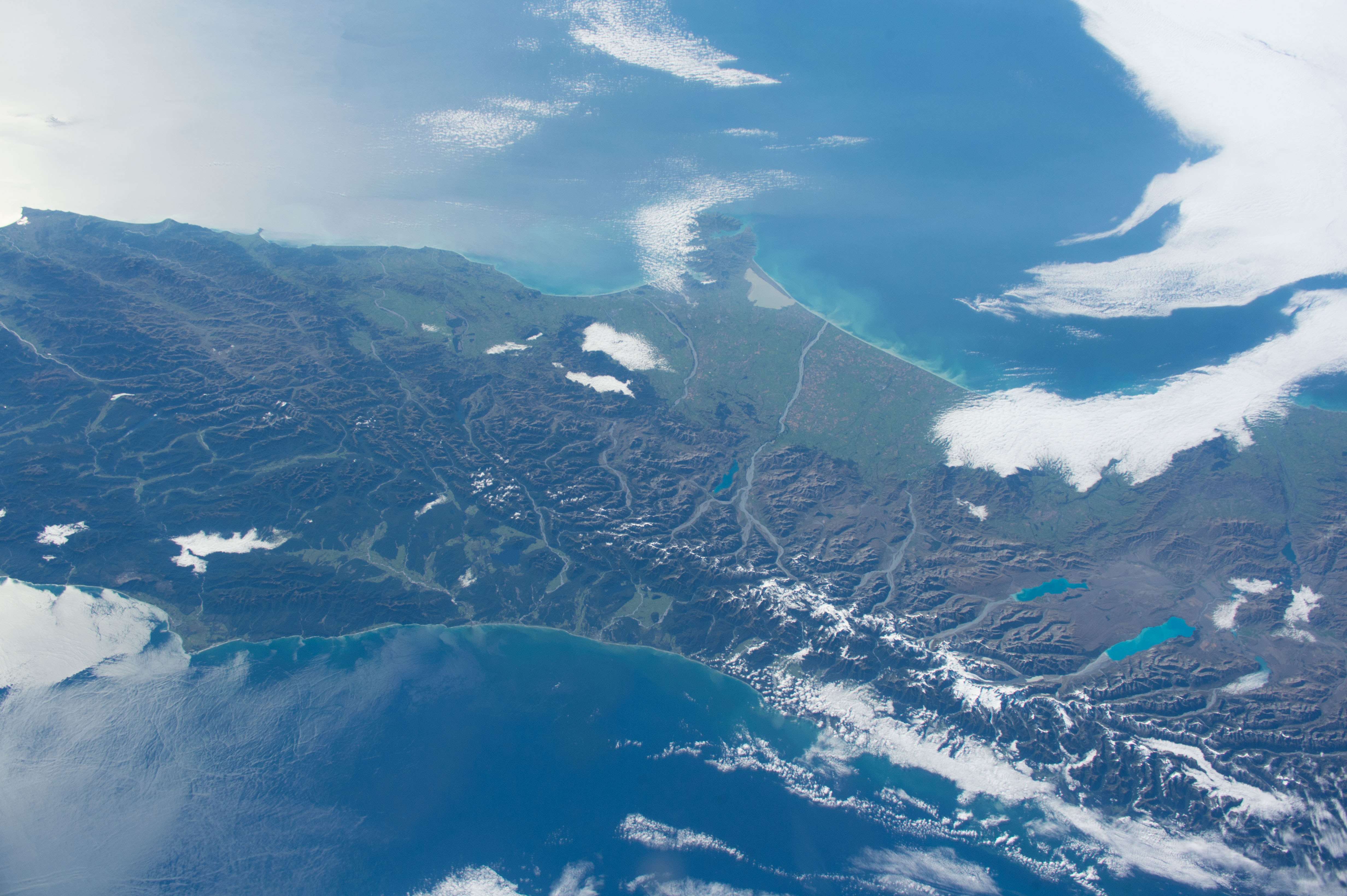 Another awesome Earth observation by the crew of the International Space Station. NASA astronaut Tim Kopra tweeted this image out with the comment: "Flying over @NewZealand -- beautiful #islands . #Explore ".